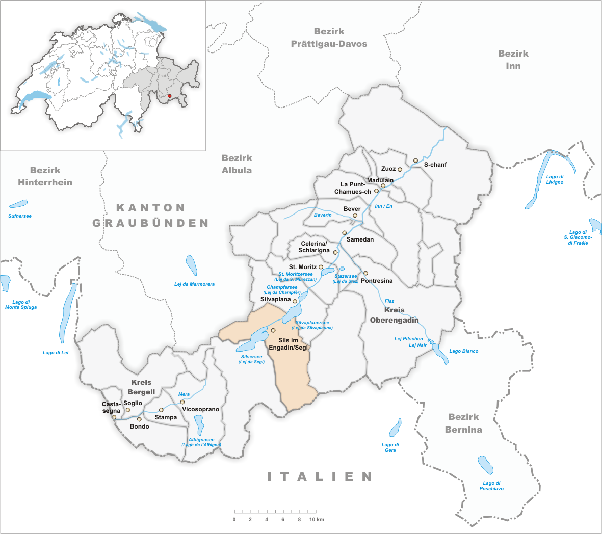 Municipality Sils im Engadin Segl